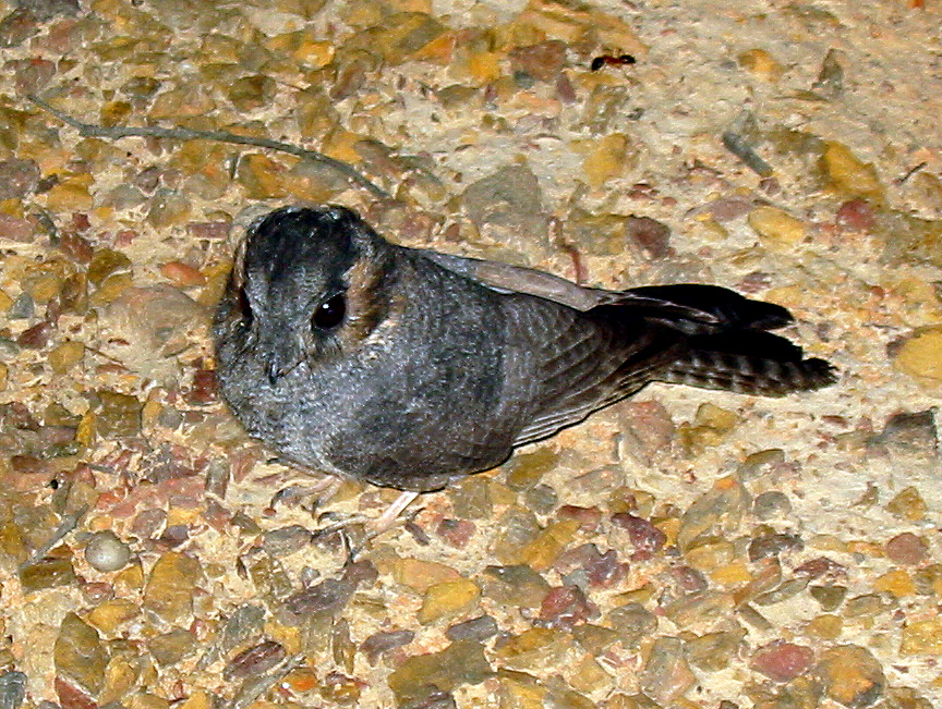 An Australian Owlet-nightjar in Wollombi Valley, New South Wales, Australia. The photograph is a bit washed out due to headlights and standby (old) camera with flash (taken at about 10pm).